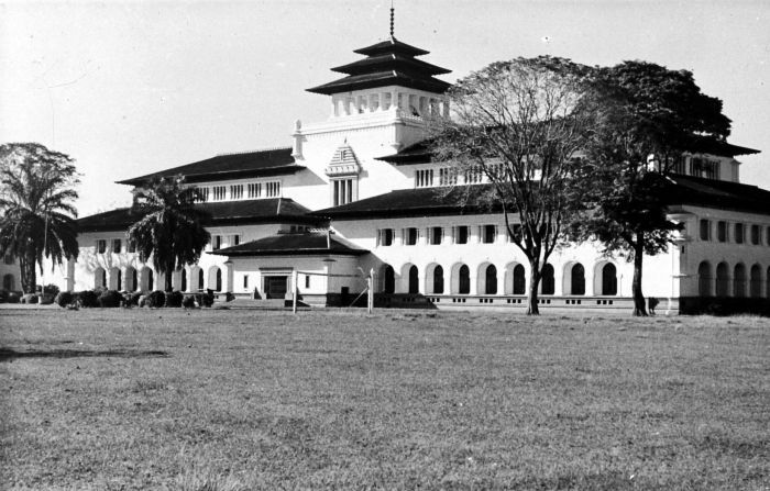 Ministery of Public Works